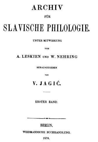 The cover page of the first volume of the Archiv für slavische Philologie, published in 1876.